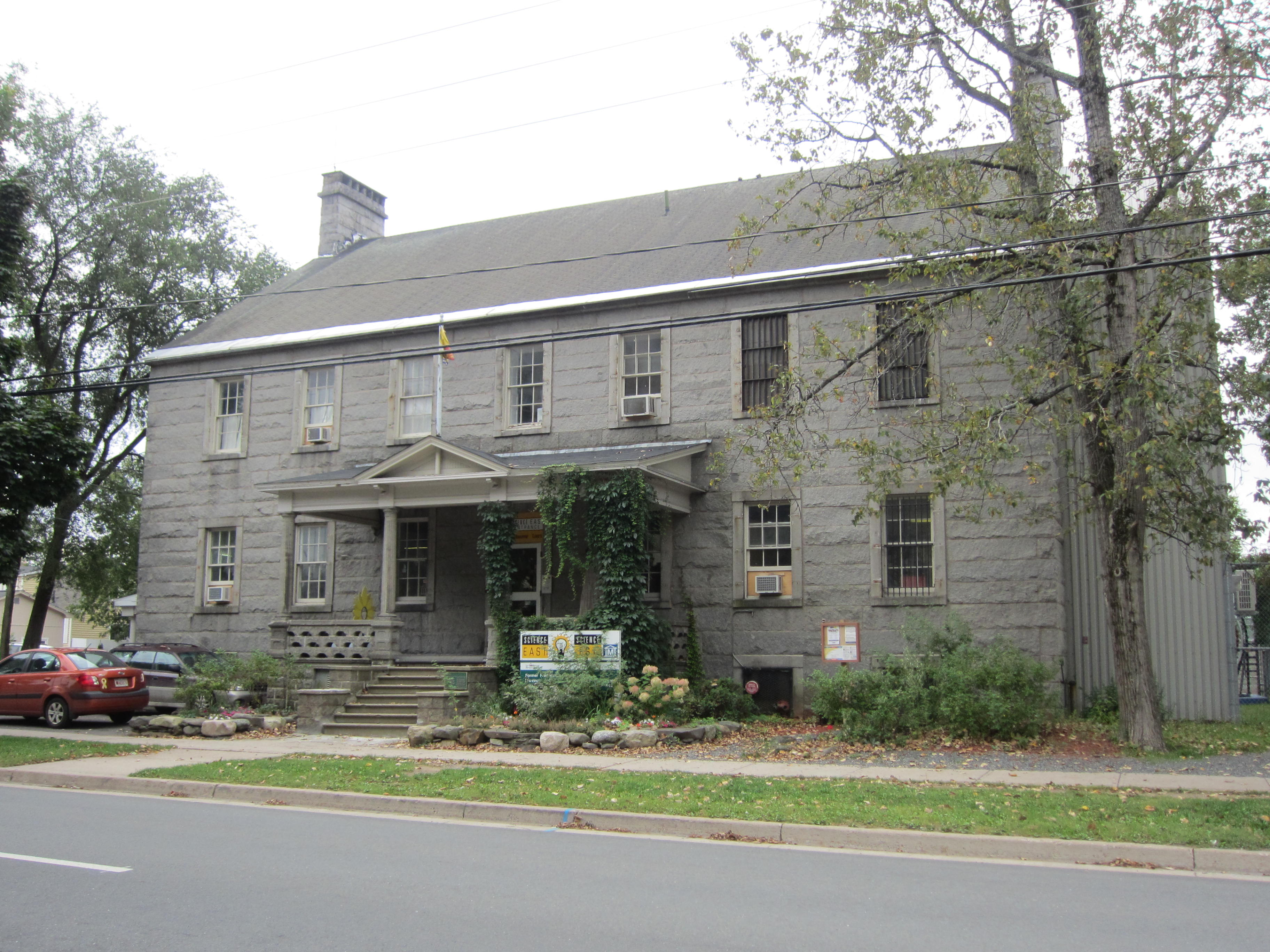 Now the science east center, york county gaol